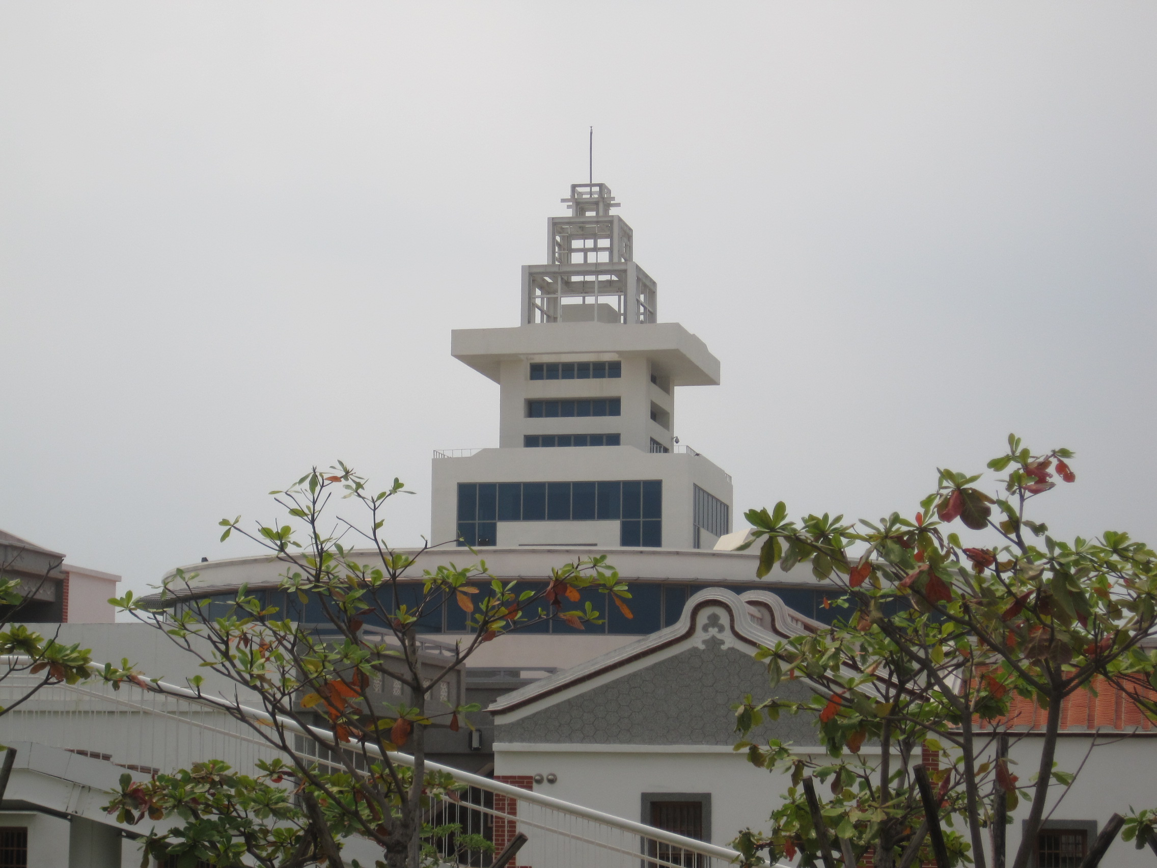 Gaozi Tower Revolting Restaurant, Hongmaogang Cultural Park, Siaogang District, Kaohsiung City, Taiwan